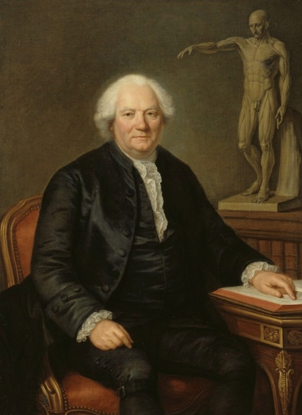 Jean-Joseph Sue (1710-1792) before a plaster statue by Jean-Antoine Houdon